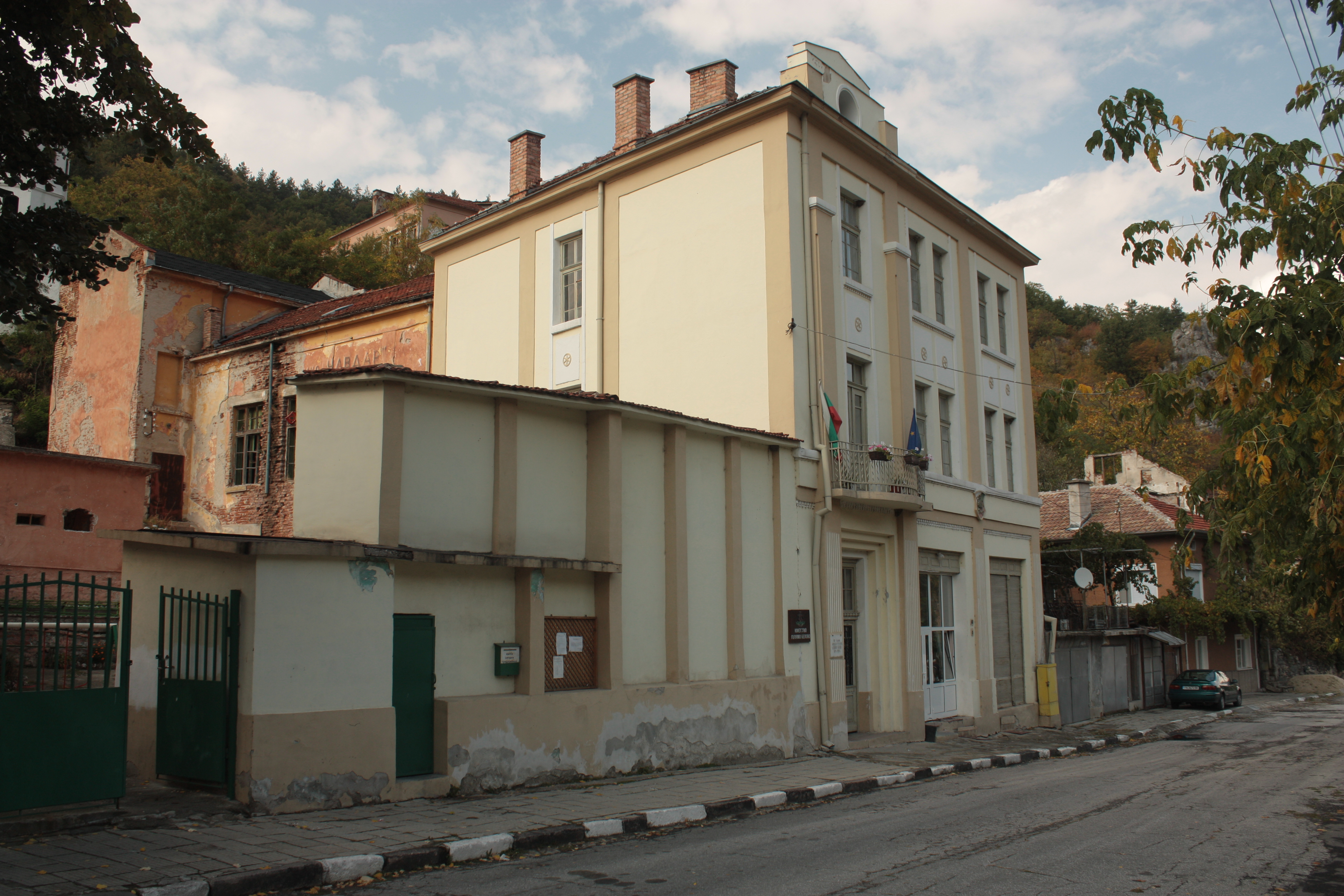 Municipality office in Golyamo Belovo